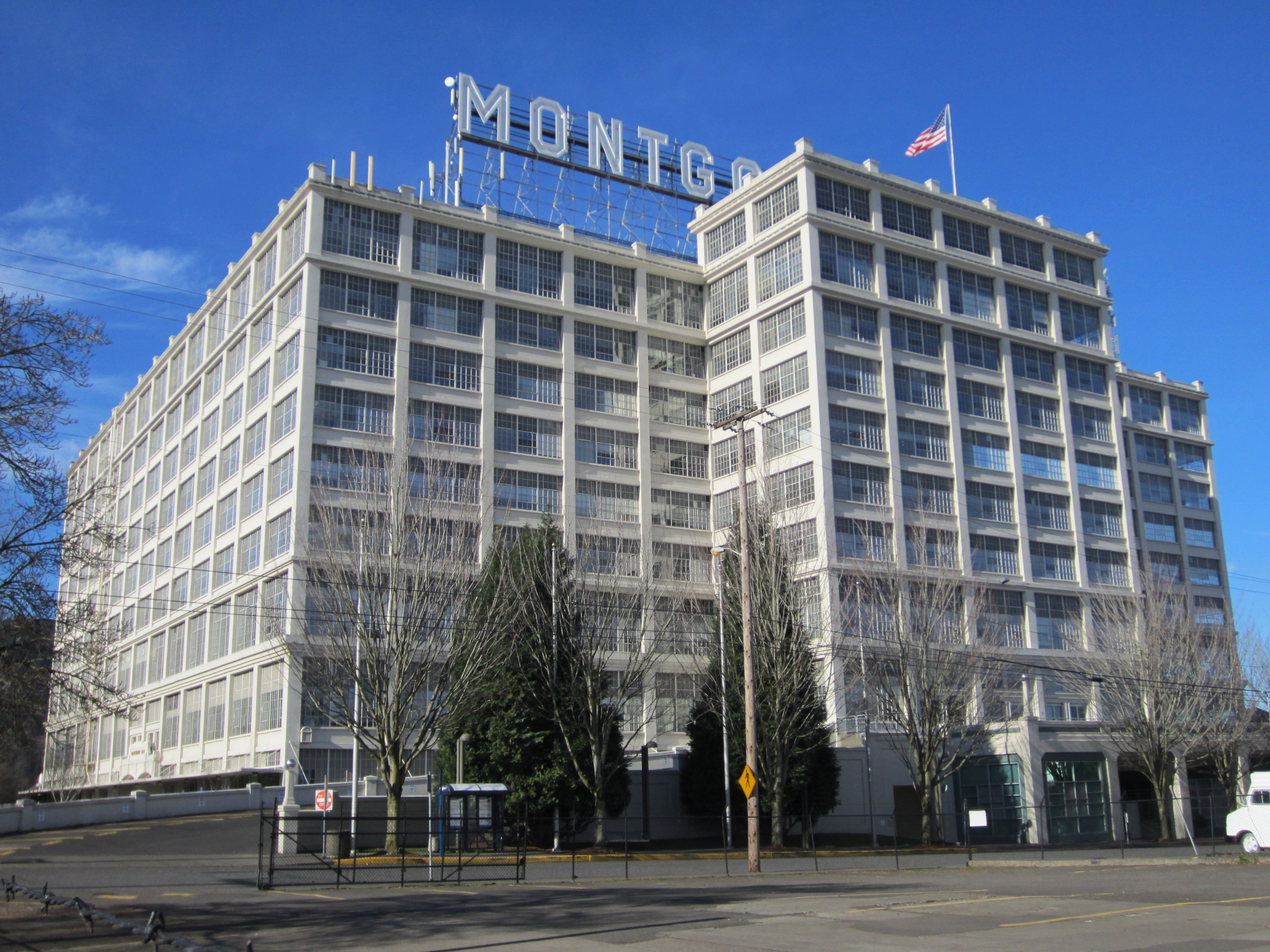 Montgomery Park in northwest Portland, Oregon in 2012